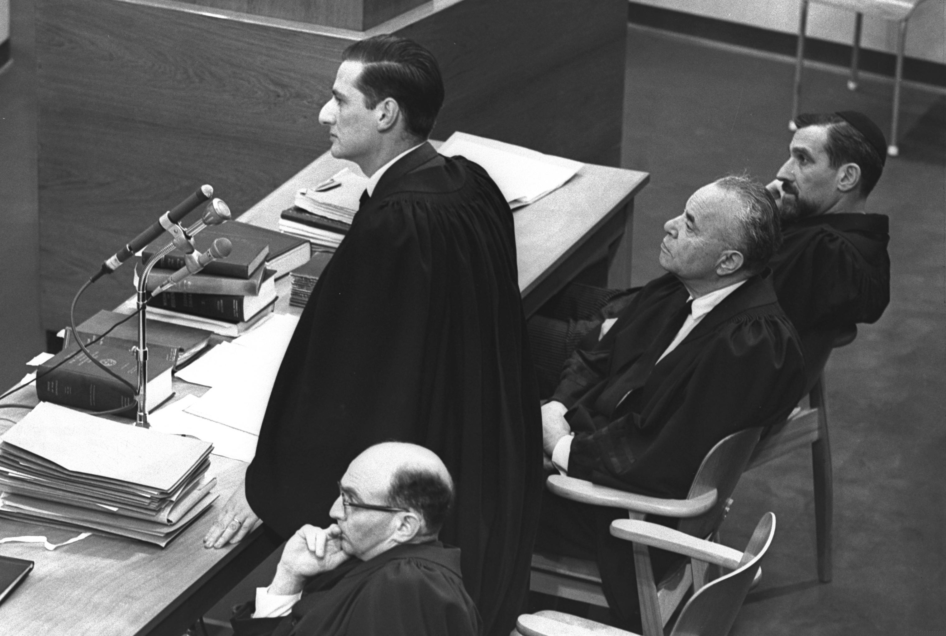 Prosecutor Gavriel Bach at Eichman's trial in Jerusalem. (from below: Hausner, Bach, n.n., Jacob Breuer